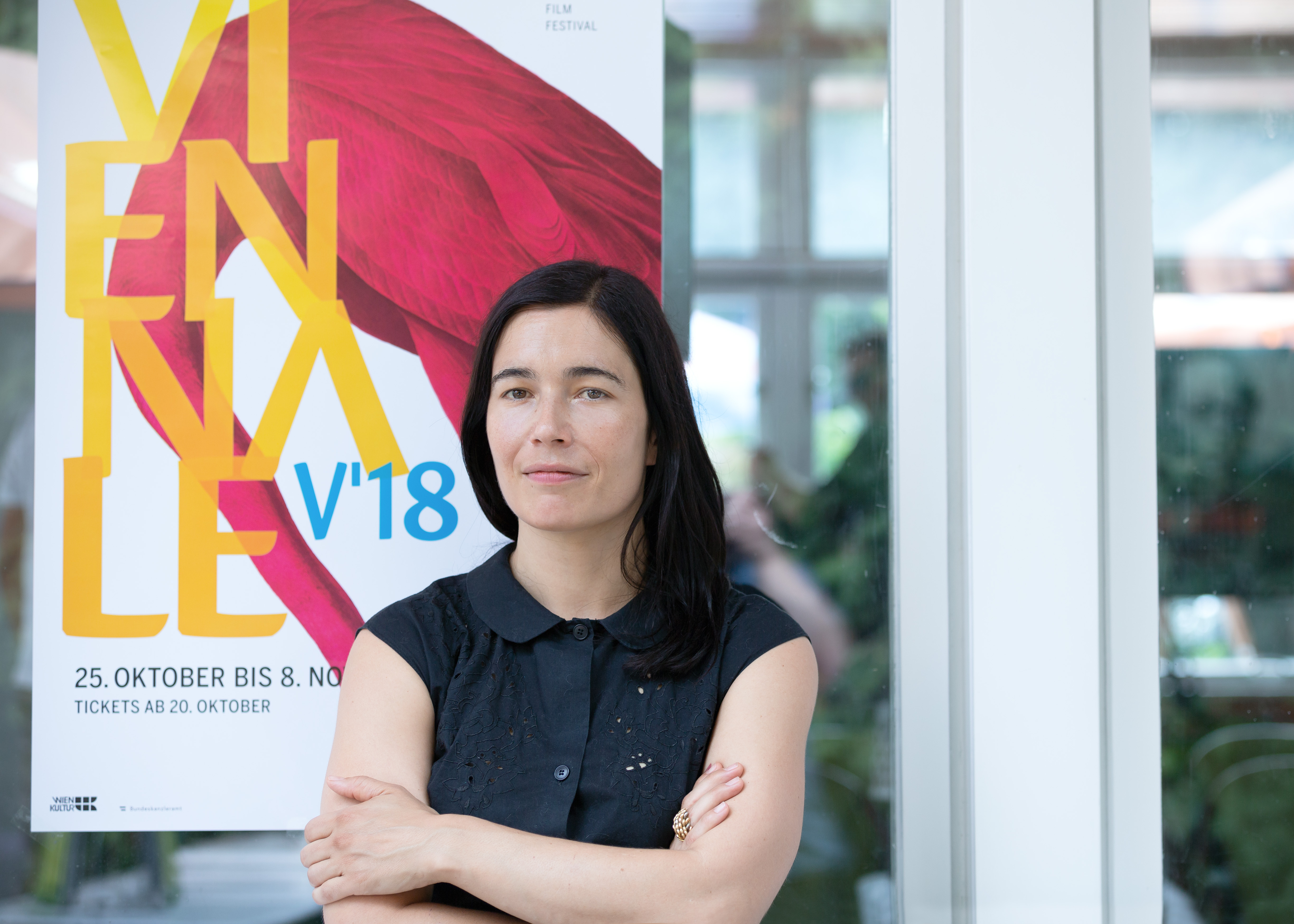 Eva Sangiorgi, summer press conference and first program preview for the Vienna International Film Festival 2018 (Volksgarten Pavillon, Vienna, Austria).